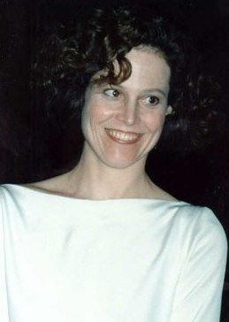 Cropped image, originally showing Sigourney Weaver with her father Pat Weaver 1989